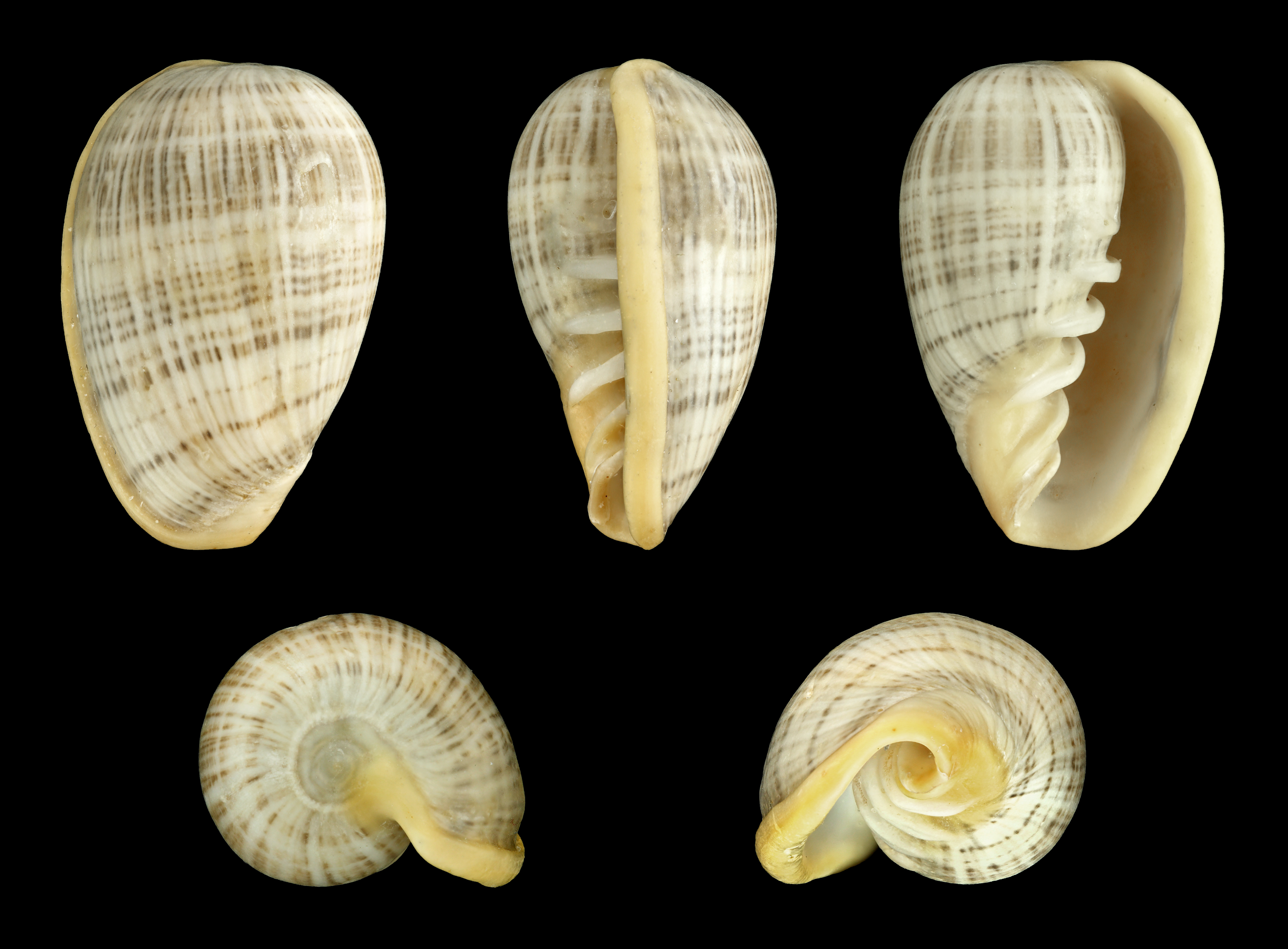 Elegant Marginella; Length 2.7 cm; Originating from the Beach Garden Resort, Pantai Cenang, Langkawi, Malaysia; Shell of own collection, therefore not geocoded. Dorsal, lateral (right side), ventral, back, and front view.